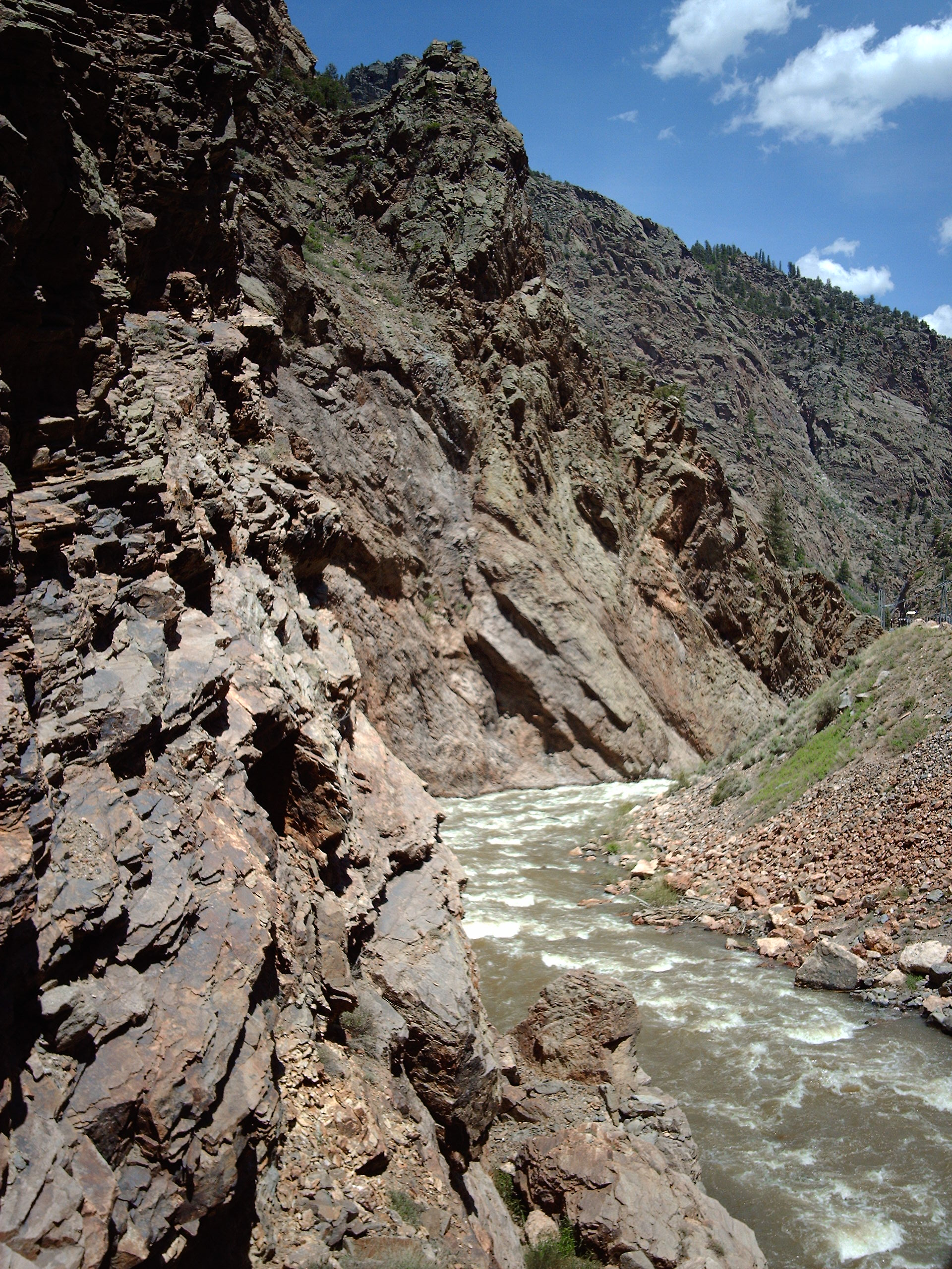 Cimarron River, Colorado - a tributary to Gunnison River. This is not the Cimarron River that tributes to Arkansas River.